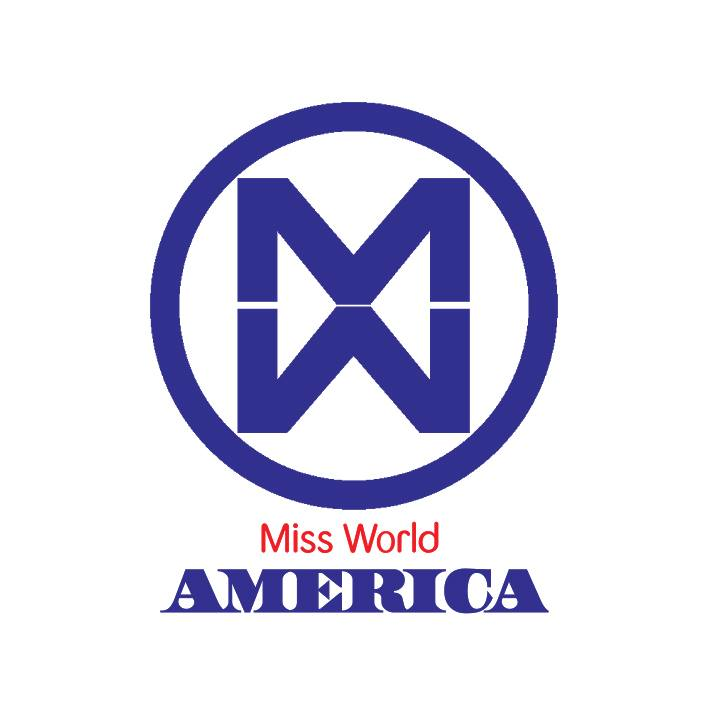 Trademarked Miss World America logo.